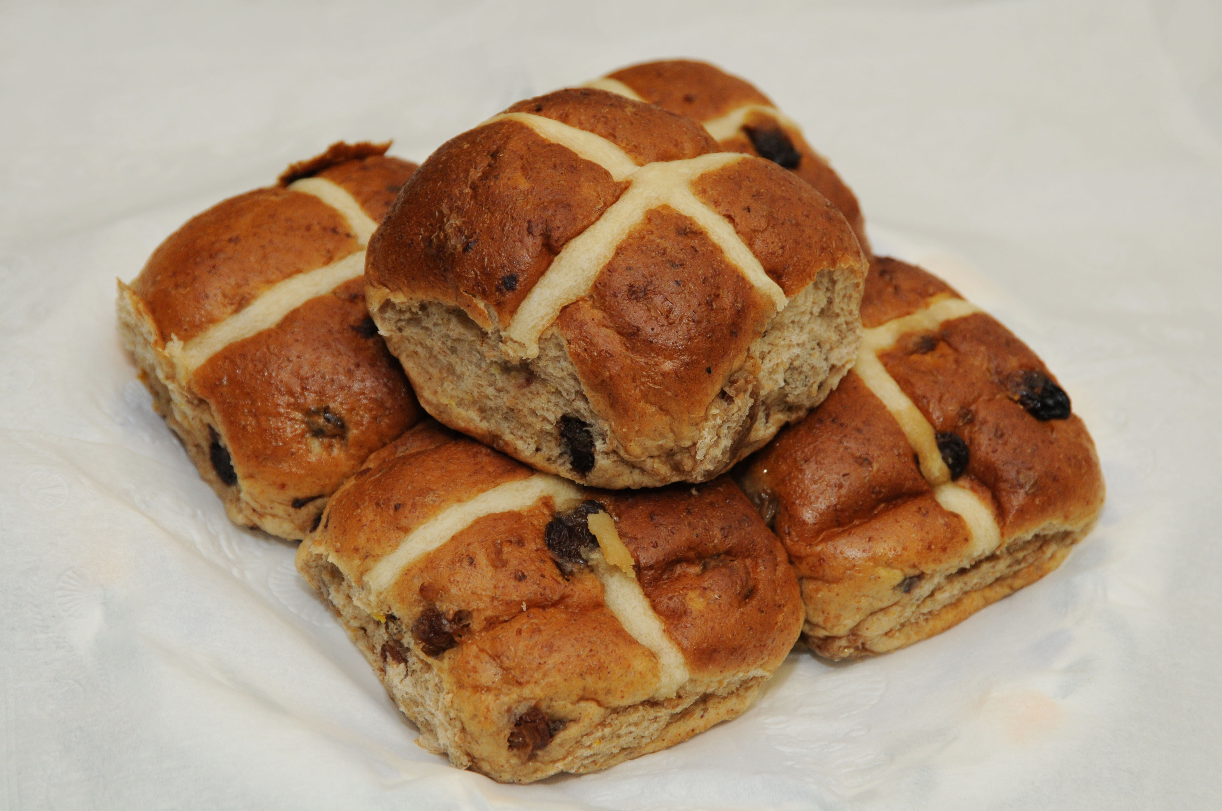 Hot cross buns are a quintessentially British tradition at Easter.They can be eaten warm or split, toasted with butter for breakfast, tea or a snack. No one knows for certain when the tradition began, but in 16th century England, bakers were limited by law to occasions when these special doughs could be made. Good Friday was one; ‘cross buns’ marked this holy day towards the end of the Lenten fast.